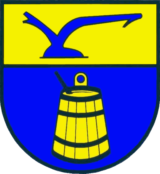 Coat of arms of the municipality Nordhackstedt in Schleswig-Holstein, Germany.